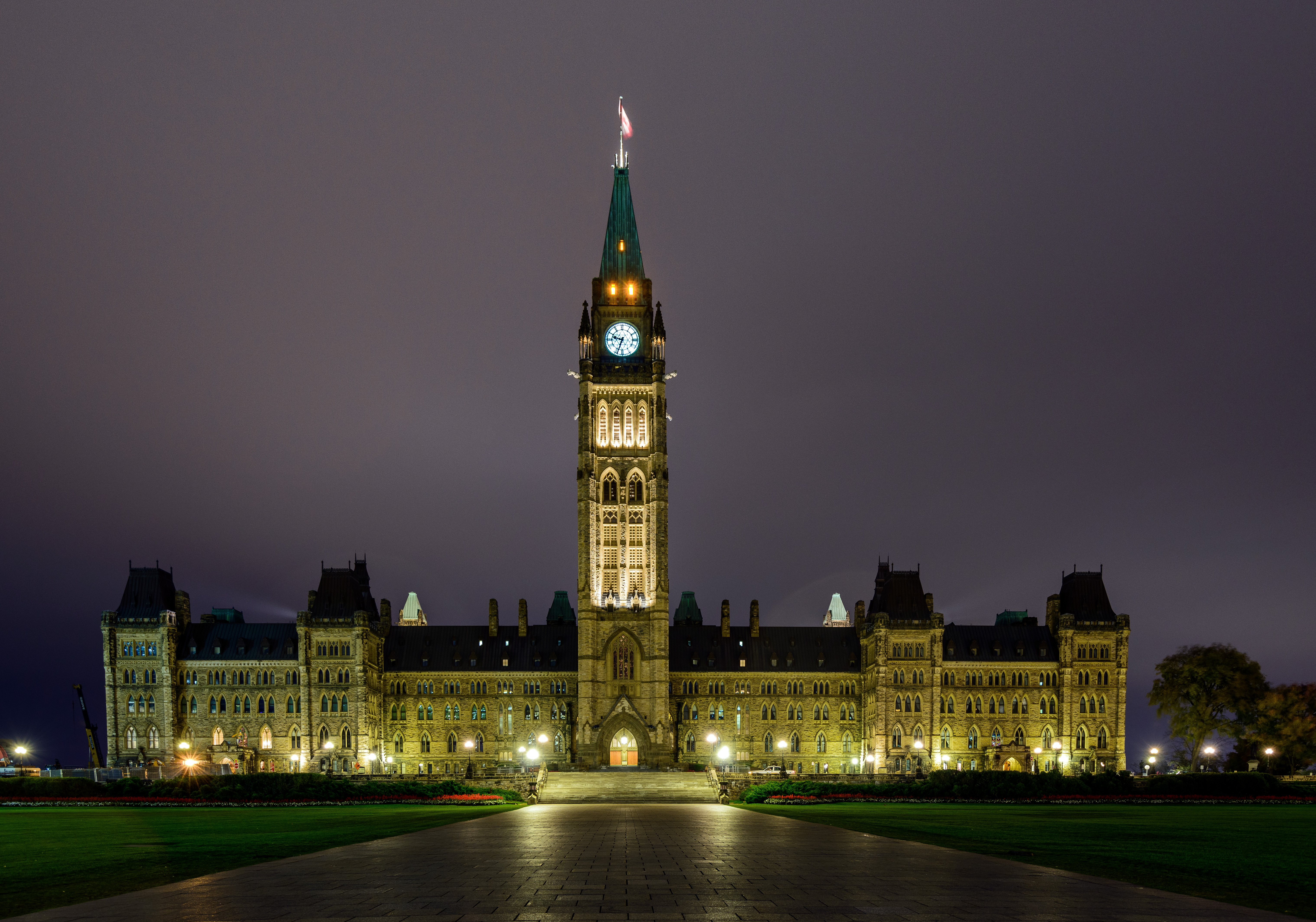 Parliament of Canada (Centre Block) at night.